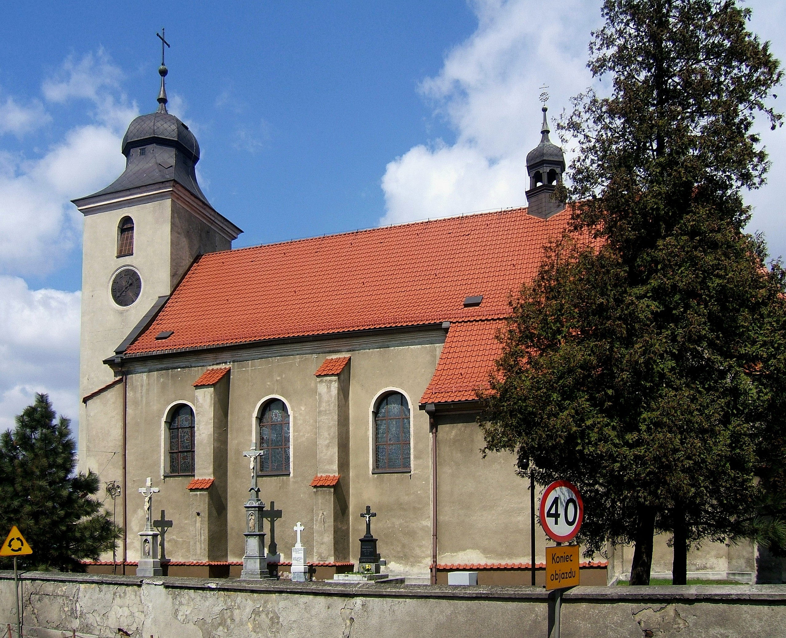 The baroque St. James church in Sośnicowice (Upper Silesia) was rebiuld after a fire from 1786 to 1794.